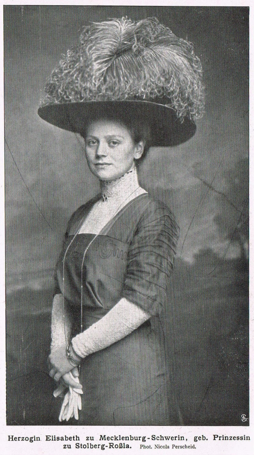 Herzogin Elisabeth zu Mecklenburg-Schwerin, geb. Prinzessin zu Stolberg-Roßla, 1910